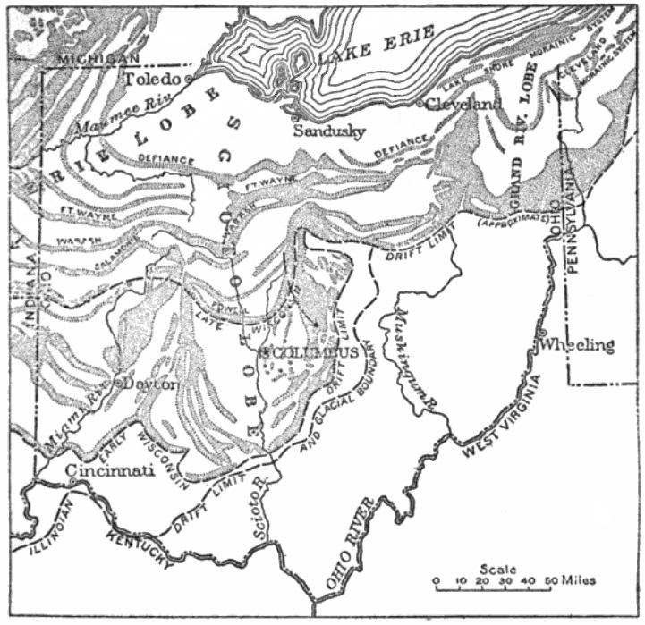 Map of Ohio showing glacial moraines left behind during the Wisconsin glaciation.